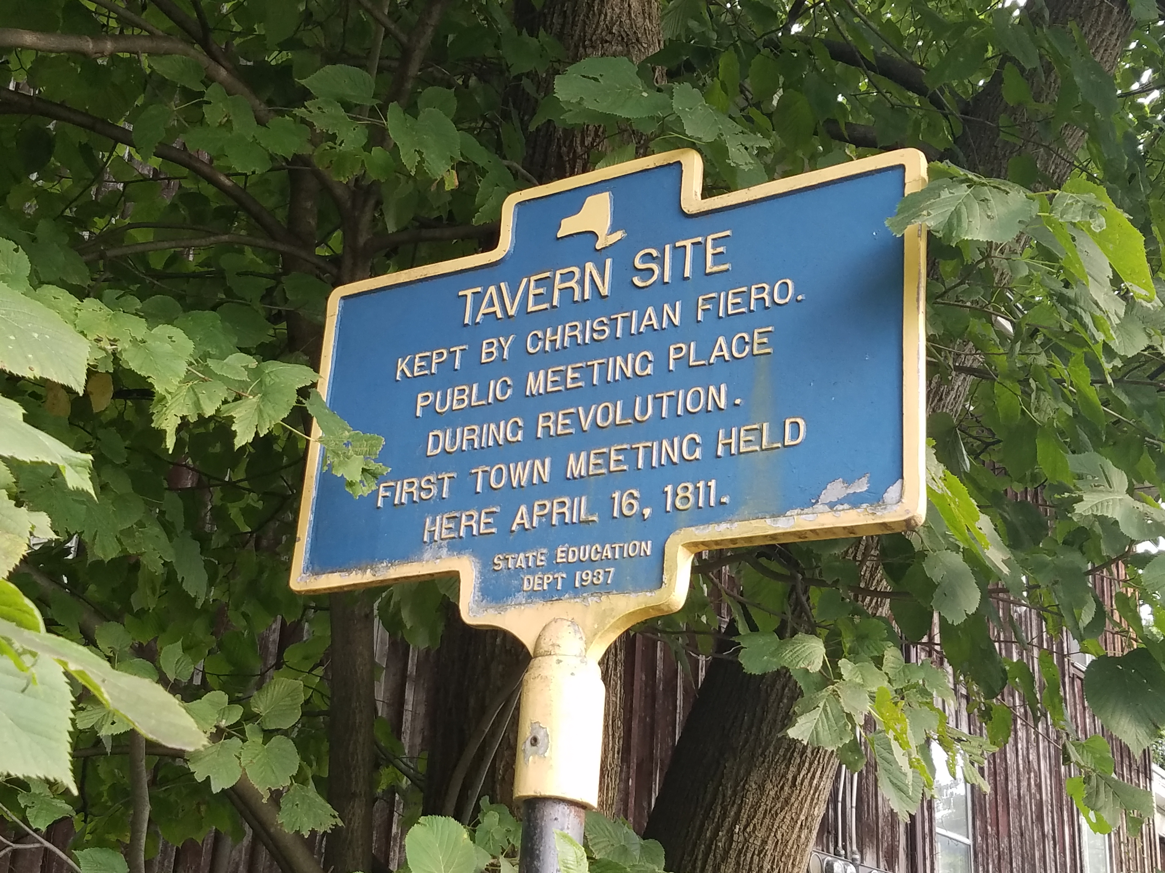 New York State historic marker for at Tavern Site